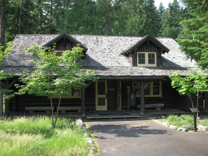 Hiker's Center, built in 1911, is now a general store and gift shop, at Longmire, Mount Rainier. Taken by Charles T. Betz on family vacation, July 2007. The Longmire Historic District is listed on the National Register of Historic Places